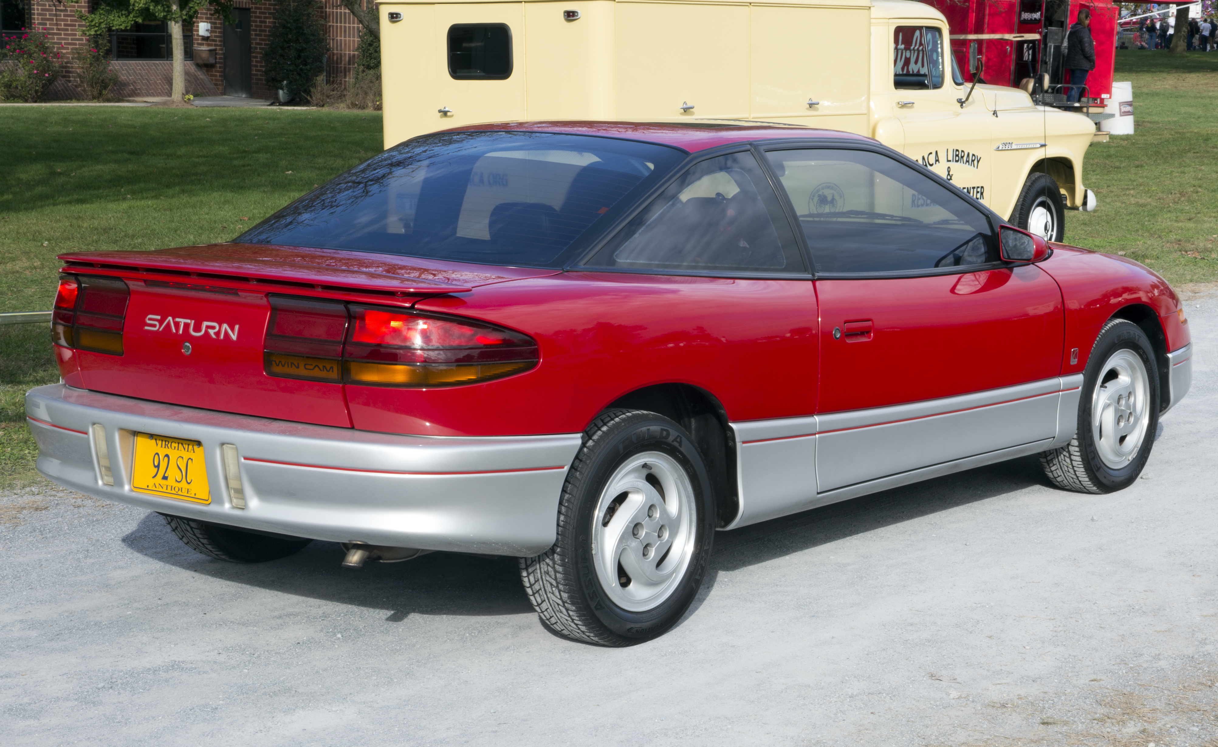 A 1992 Saturn SC2 leaving the show area at Hershey 2019. 25,000 miles, Bright Red with Black leather interior and an automatic. Near concours condition.